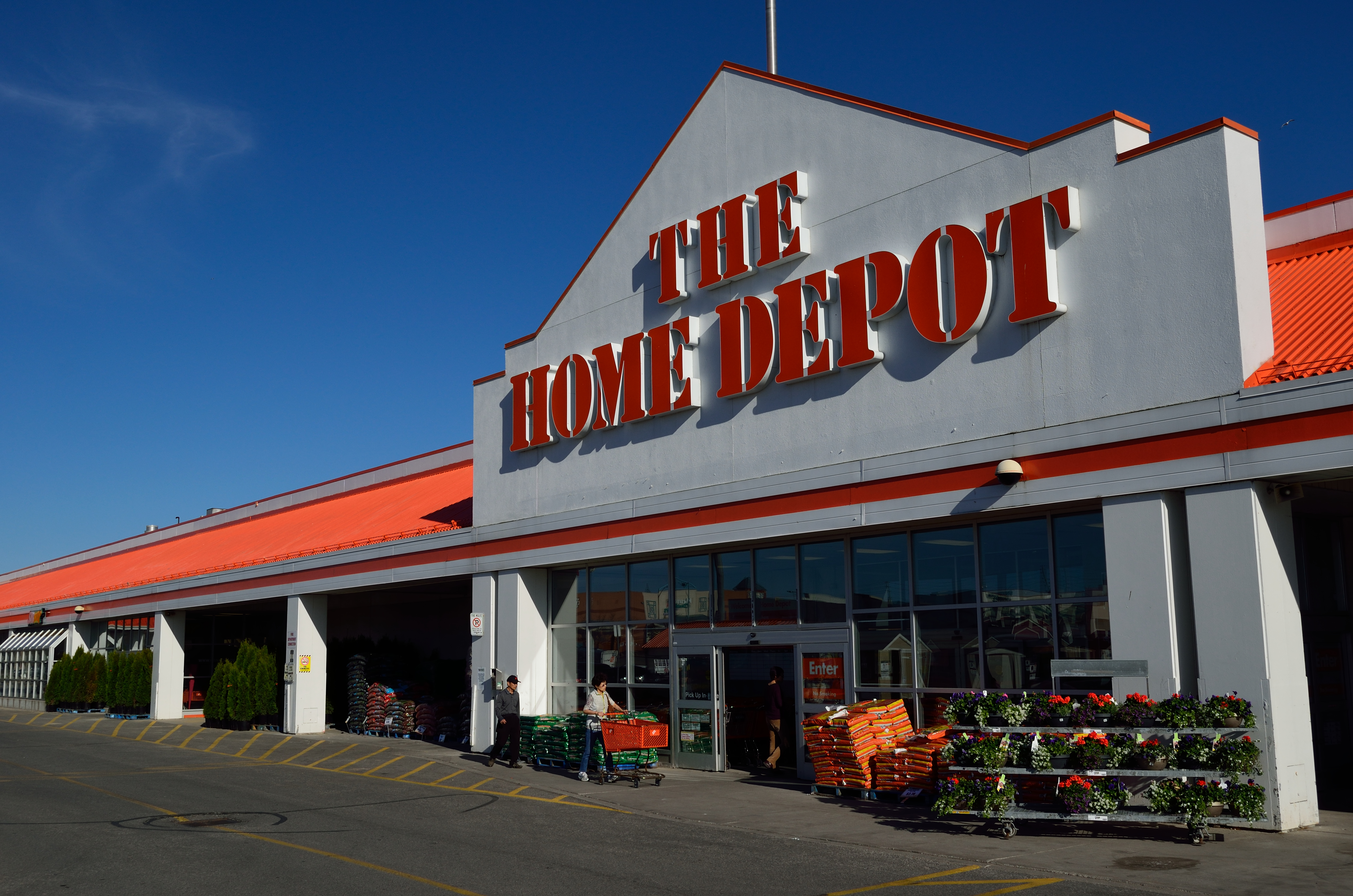 Home Depot in Markham